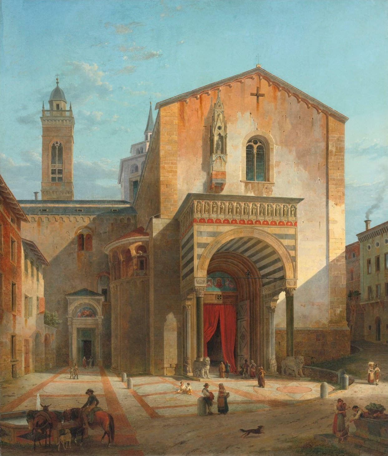 Bergamo, The South Entrance of the Church of Santa Maria Maggiore by Leo von Klenze, oil on canvas, 102 by 87.7 cm.